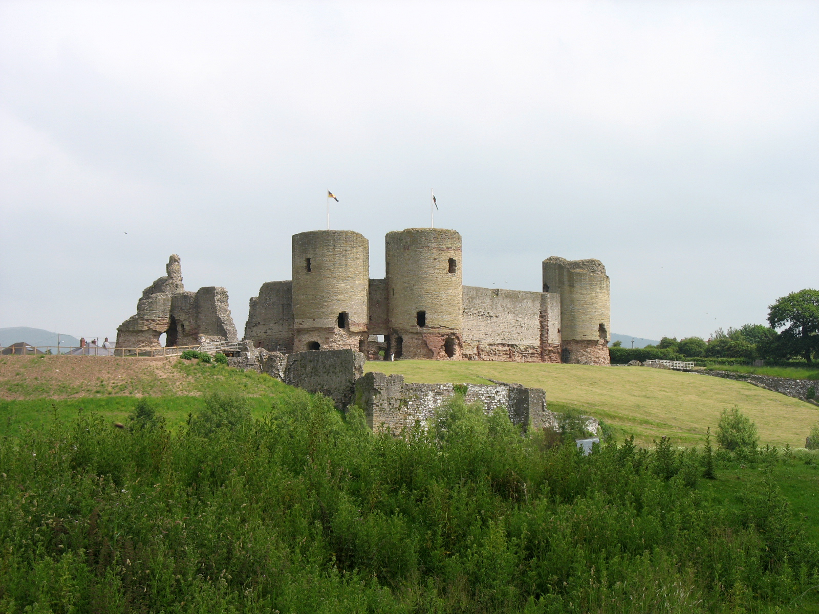 Rhuddlan Castle